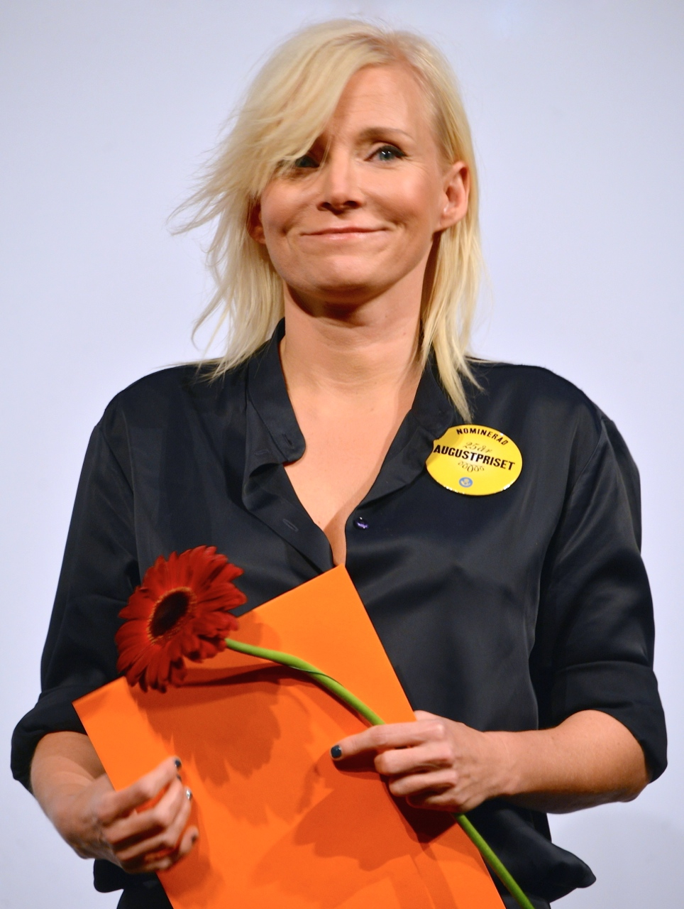 Bea Uusma, nominated for the August Prize in the category of non-fiction in 2013.